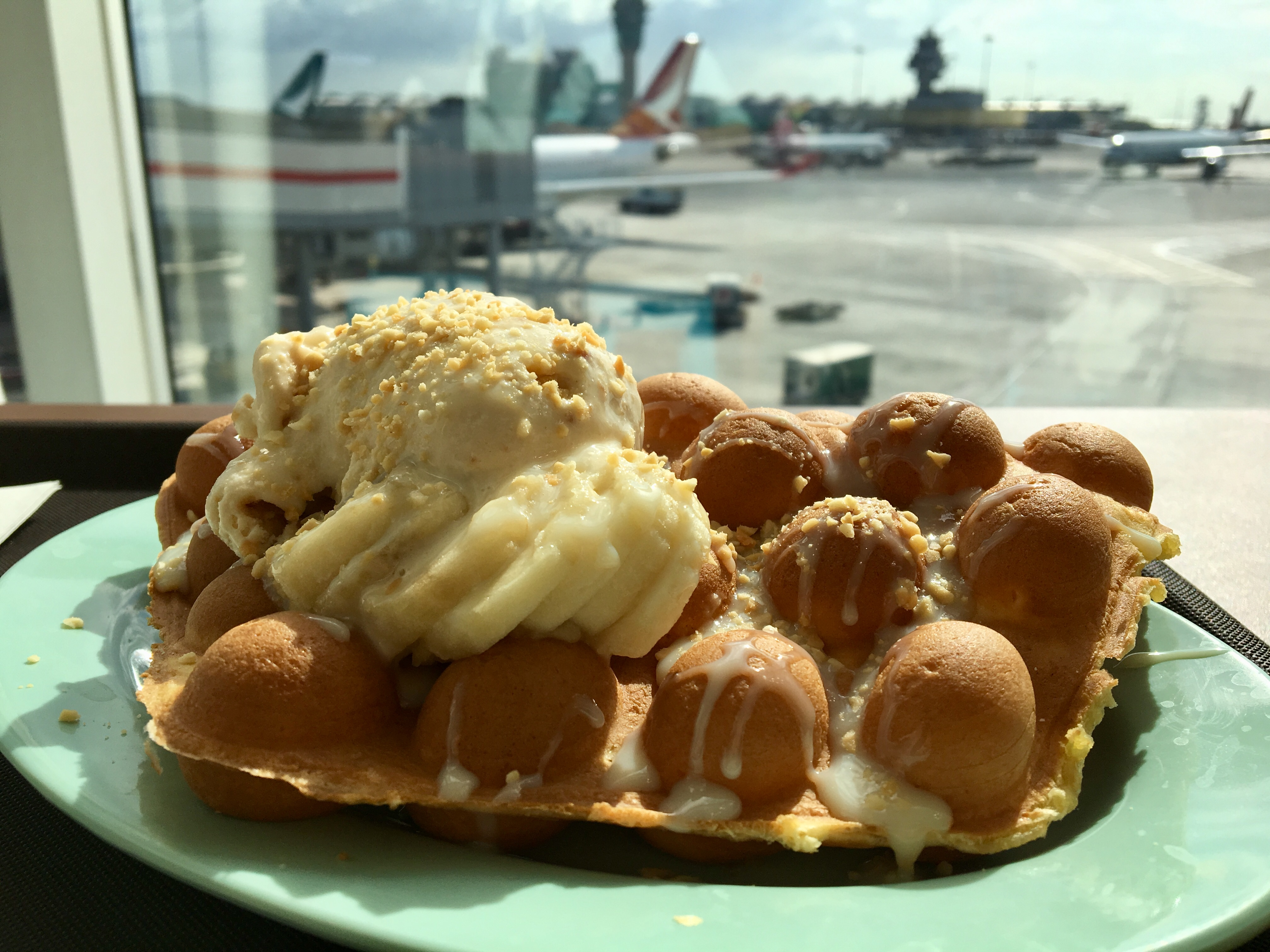 Egg waffle with ice cream and crushed peanuts in Hong Kong